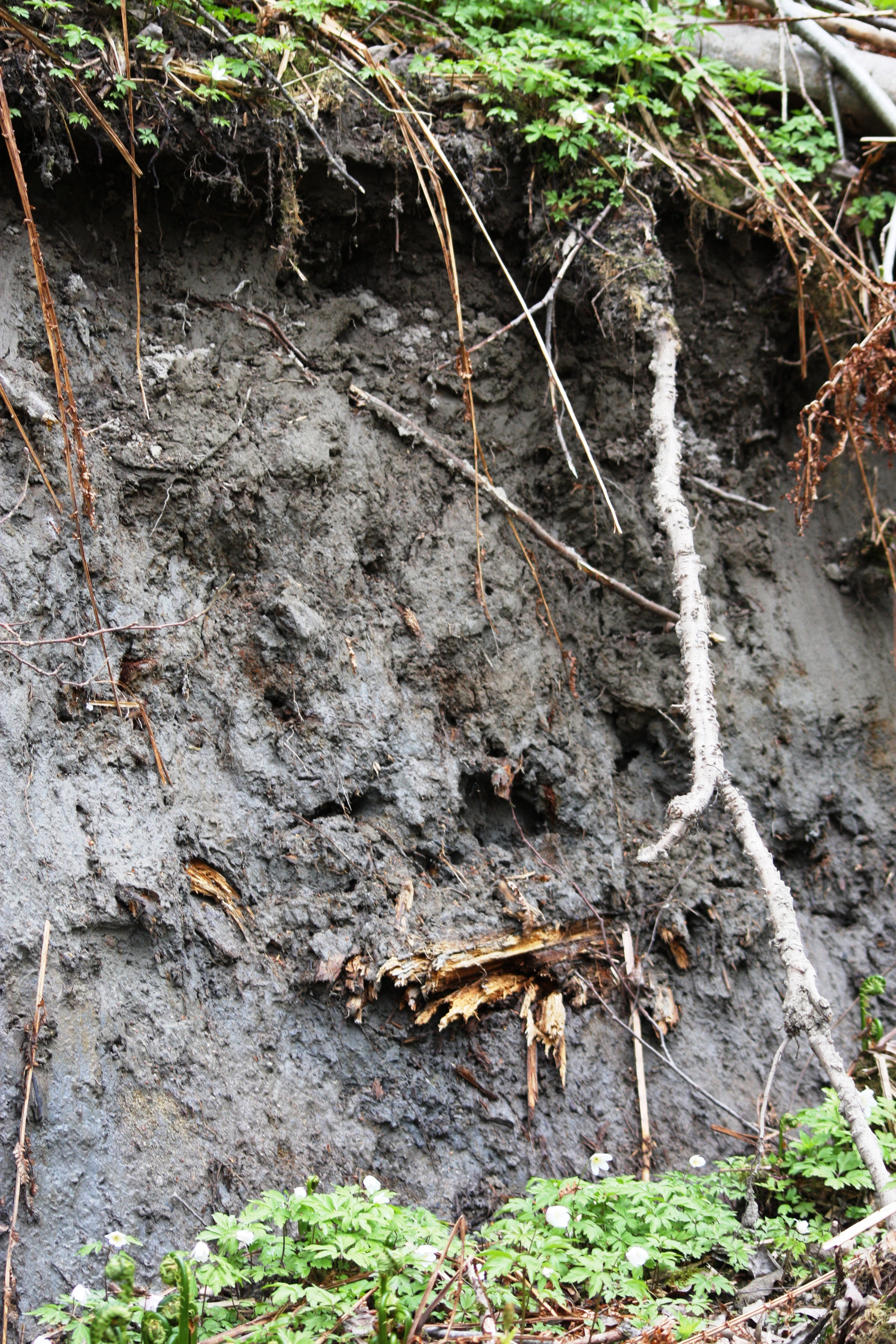 Blue clay, from the latest glacial sub-marine border coast of Hurum, Norway.